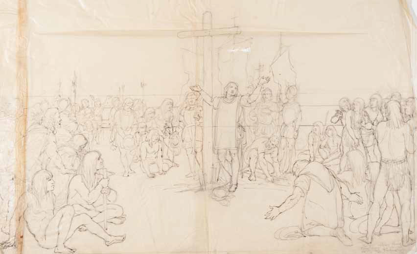 Artist's sketch of the mural